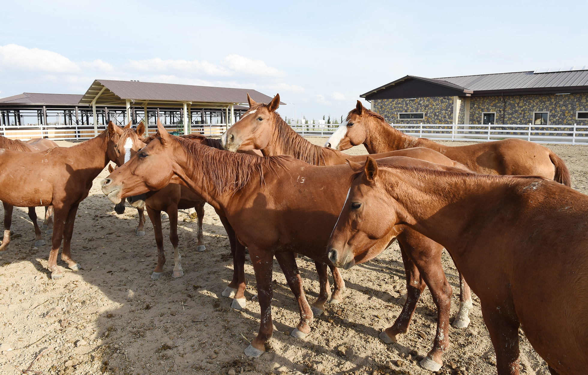 Qarabag Equestrian Complex